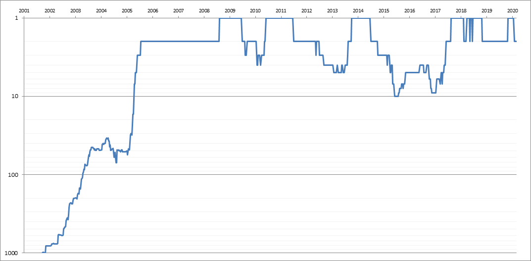 Rafael Nadal Singles Ranking History Overview Chart (through November 2016) Note: official ATP table has 1 missing data entry point for the following week: '2012.07.02' (2nd July 2012) citing an erroneous rank of 0, which is not technically possible for an intermediate week between several continuous and consecutive weeks that precedes and follows it. Thus, to prevent a discontinuity in the chart I have manually entered an assumed ranking of '2' (which coincides with Novak Djokovic fall to rank place no.2, and Roger Federer rise to place no.1 next week, but since this week no ATP points change occurred I decided to keep their ranking unchanged. When the data table gets a proper revision, chart will be corrected.